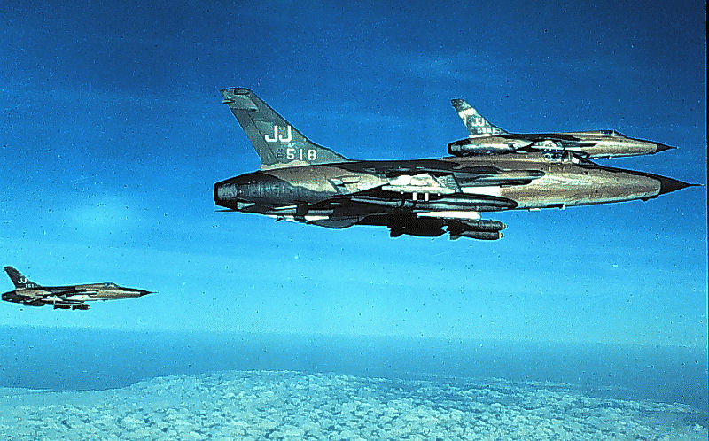 34th Tactical Fighter Squadron - Republic F-105D-10-RE Thunderchief - 60-0518